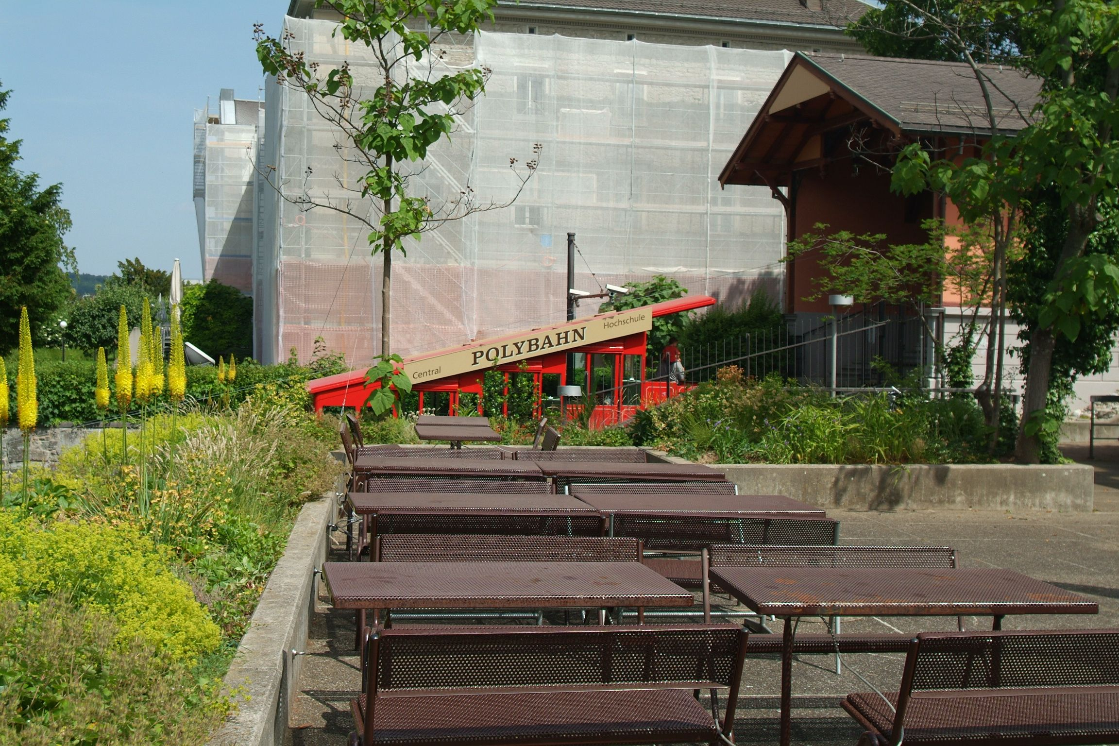 The Polybahn